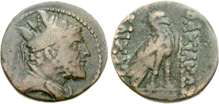 Coin of Abdissares (210 BC), Armenian King of Sophene (source: Ancient Coin Collecting VI: Non-Classical Cultures p. 29) Description from : KINGS of SOPHENE. Abdissares. Circa 210 BC. Æ Chalkous (5.37 g, 12h). Diademed and draped bust right, wearing folded tiara / Eagle standing right. Bedoukian, Coinage 16; AC 15. VF, brown surfaces. Rare.From the J. S. Wagner Collection.